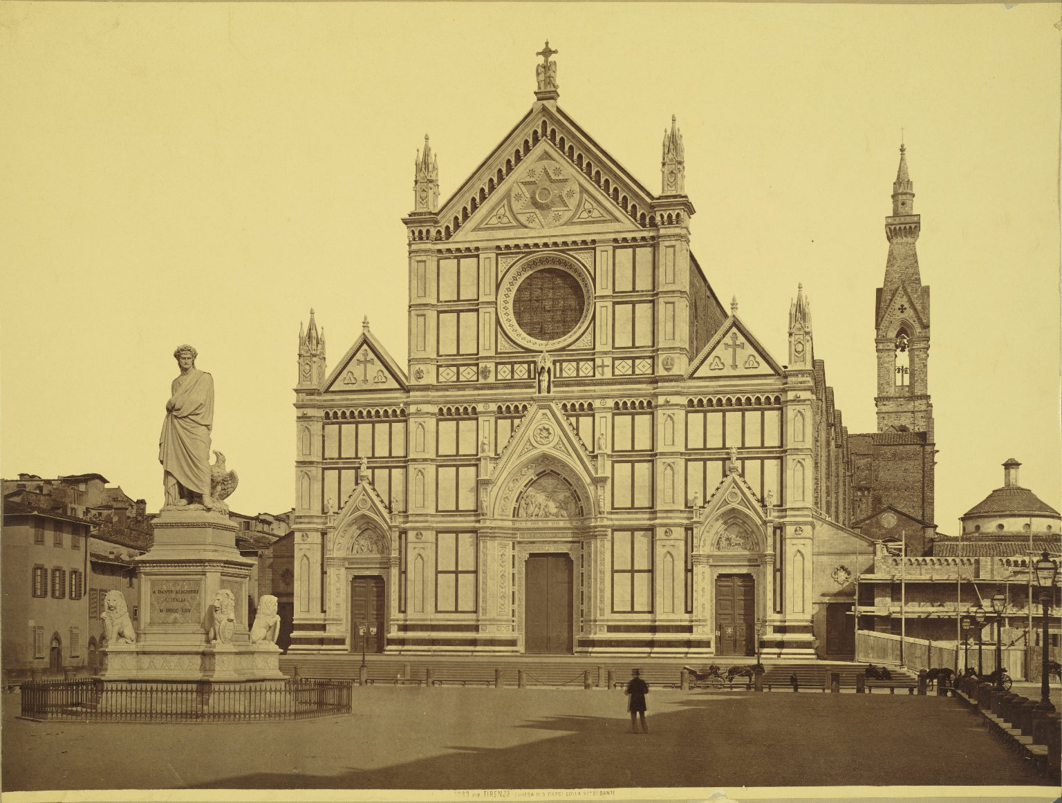 Collection: A. D. White Architectural Photographs, Cornell University Library Accession Number: 15/5/3090.01634 Title: Florence. Statue of Dante and church of Santa Croce Architect of facade: Niccolò Matas (Italian, 1798-1872) Photographer: Giacomo Brogi (Italian, 1822-1881) Building Date: ca. 1375-ca. 1399 Facade date: 1857-1863 Photograph date: ca. 1865-ca. 1885 Location: Europe: Italy; Florence Materials: albumen print Image: 11.0236 x 14.7638 in.; 28 x 37.5 cm Provenance: Gift of Andrew Dickson White Persistent URI: There are no known copyright restrictions on this image. The digital file is owned by the Cornell University Library which is making it freely available with the request that, when possible, the Library be credited as its source. We had some help with the geocoding from